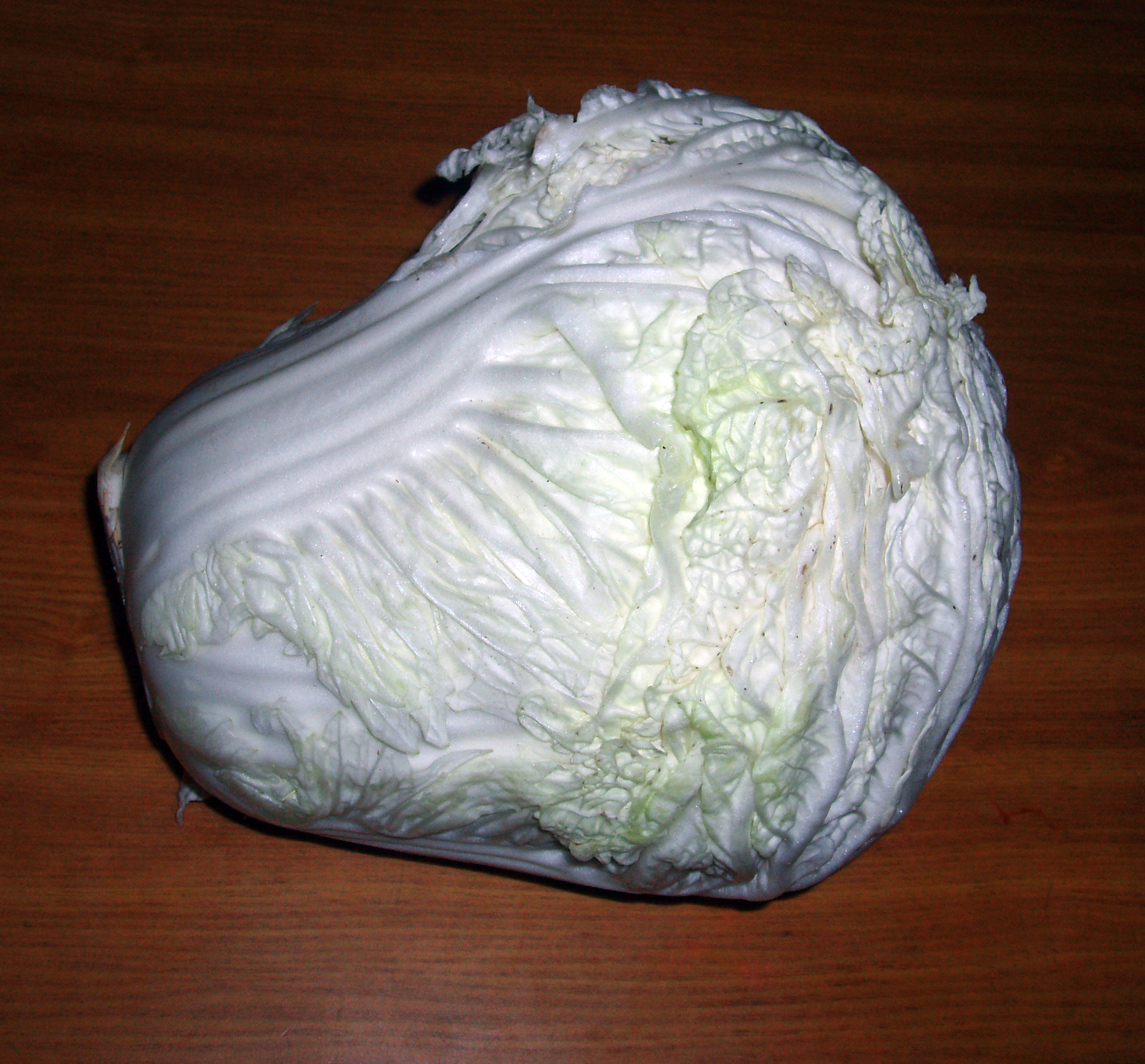 A varity of Chinese cabbage